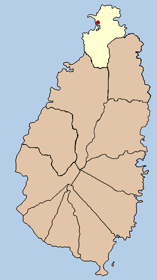 this is a political map showing the quarter of Gros Islet on the island nation of Santa Lucia. I created it myself by using the GIMP to trace a public domain map that i found at the Perry-Castañeda Library Map Collection.